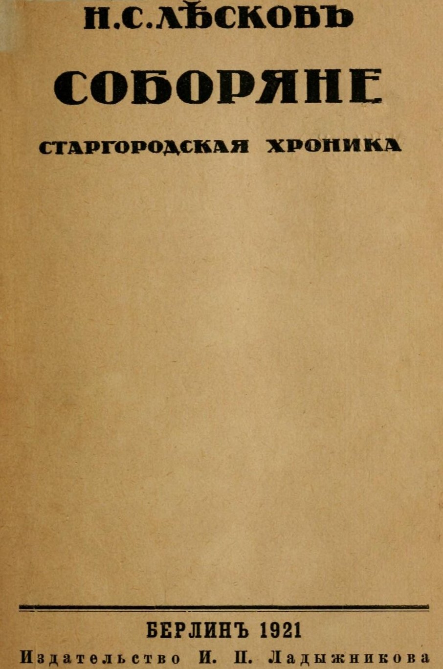 Cathedral Clergy title page